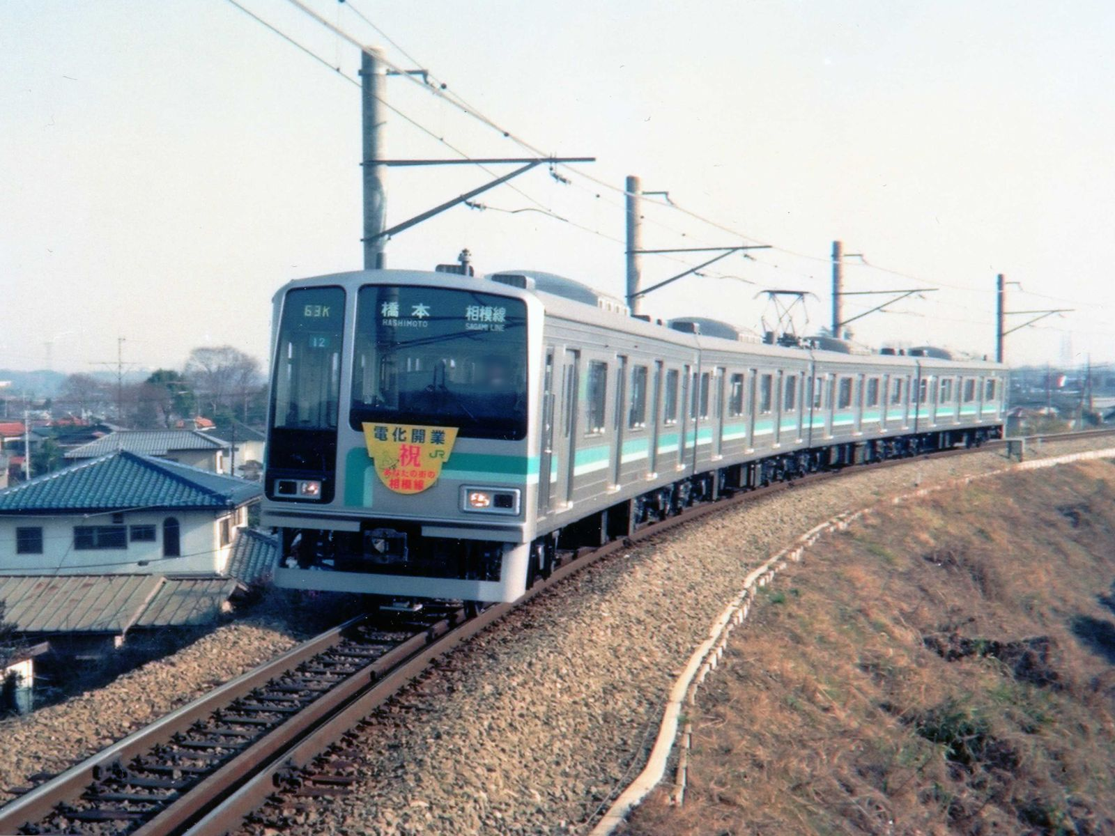 East Japan Railway Company, EMU Type 205 at Kamimizo Sta.